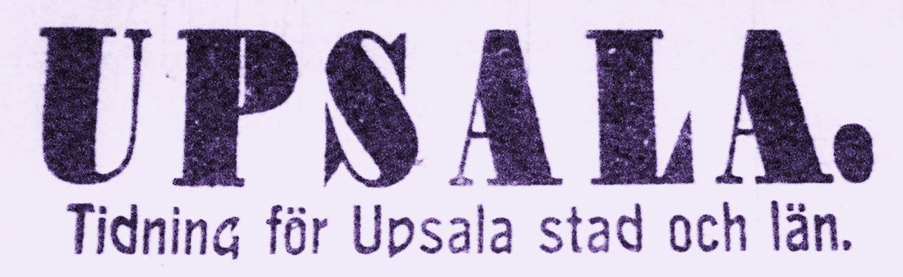 Picture of Upsala (news paper)